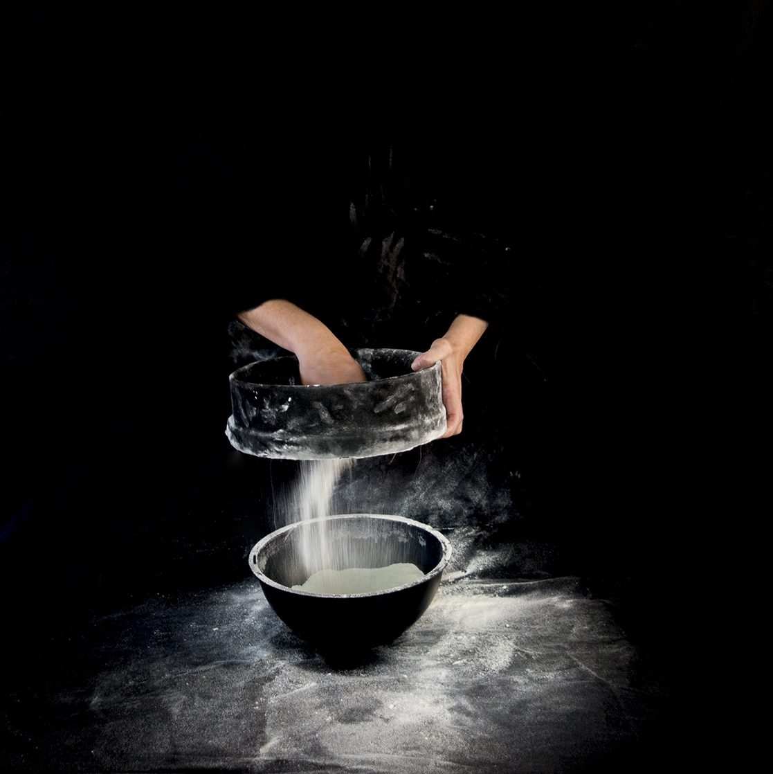 Crystal Palace exhibition